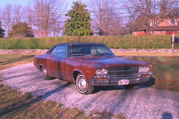 A 1969 Ambassador DPL two-door hardtop (no center or B-pillar)